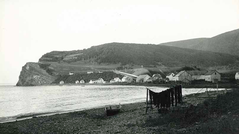 Gros-Morne, Gaspe peninsula